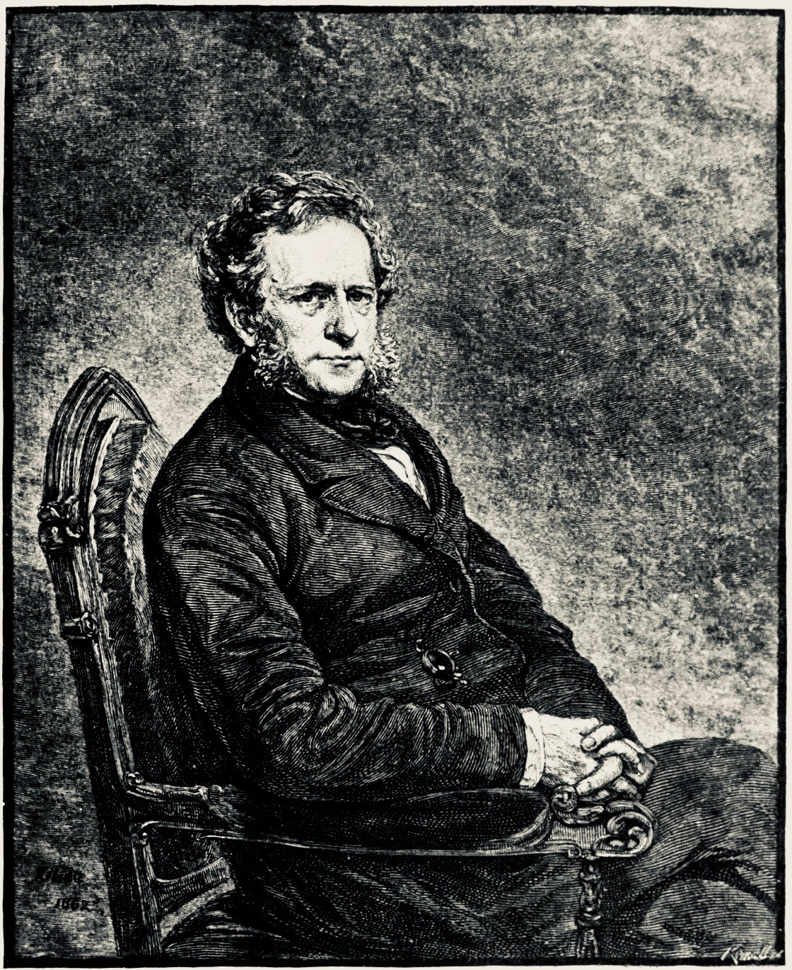 Fletcher Harper (1806–1877), painting by Charles Loring Elliott (1812–1868)